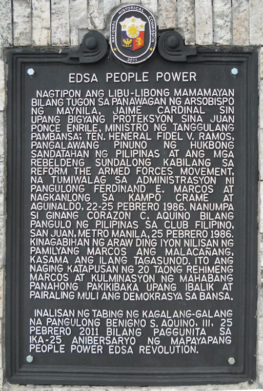 Historical marker titled "EDSA People Power" installed by the National Historical Commission of the Philippines on February 25, 2011 at the intersection of EDSA and White Plains Avenue in Quezon City. Tagalog: Palatandaang makasaysayang pinamagatang "EDSA People Power" na itinayo ng Pambansang Komisyong Pangkasaysayan ng Pilipinas noong ika-25 ng Pebrero 2011 sa sulok ng EDSA at Abenida White Plains sa Lungsod Quezon